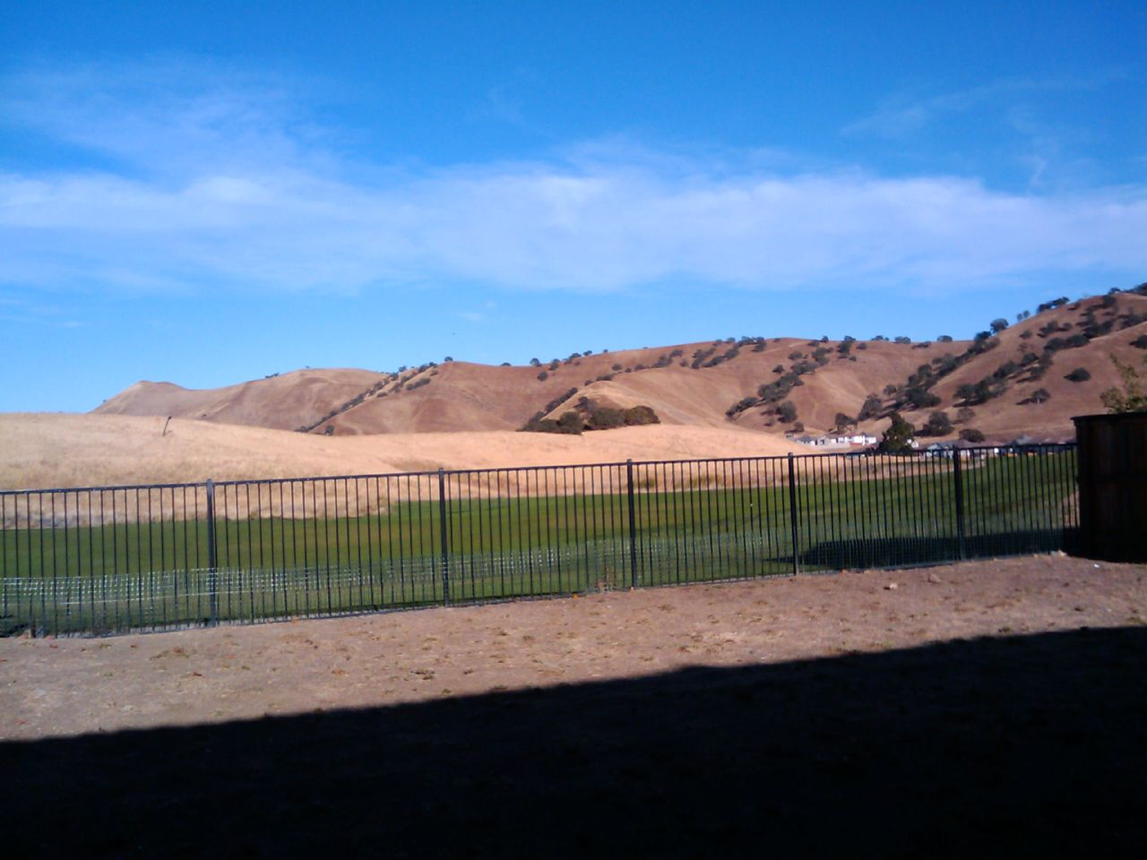 A view of the Diablo Grande area in Stanislaus County, California